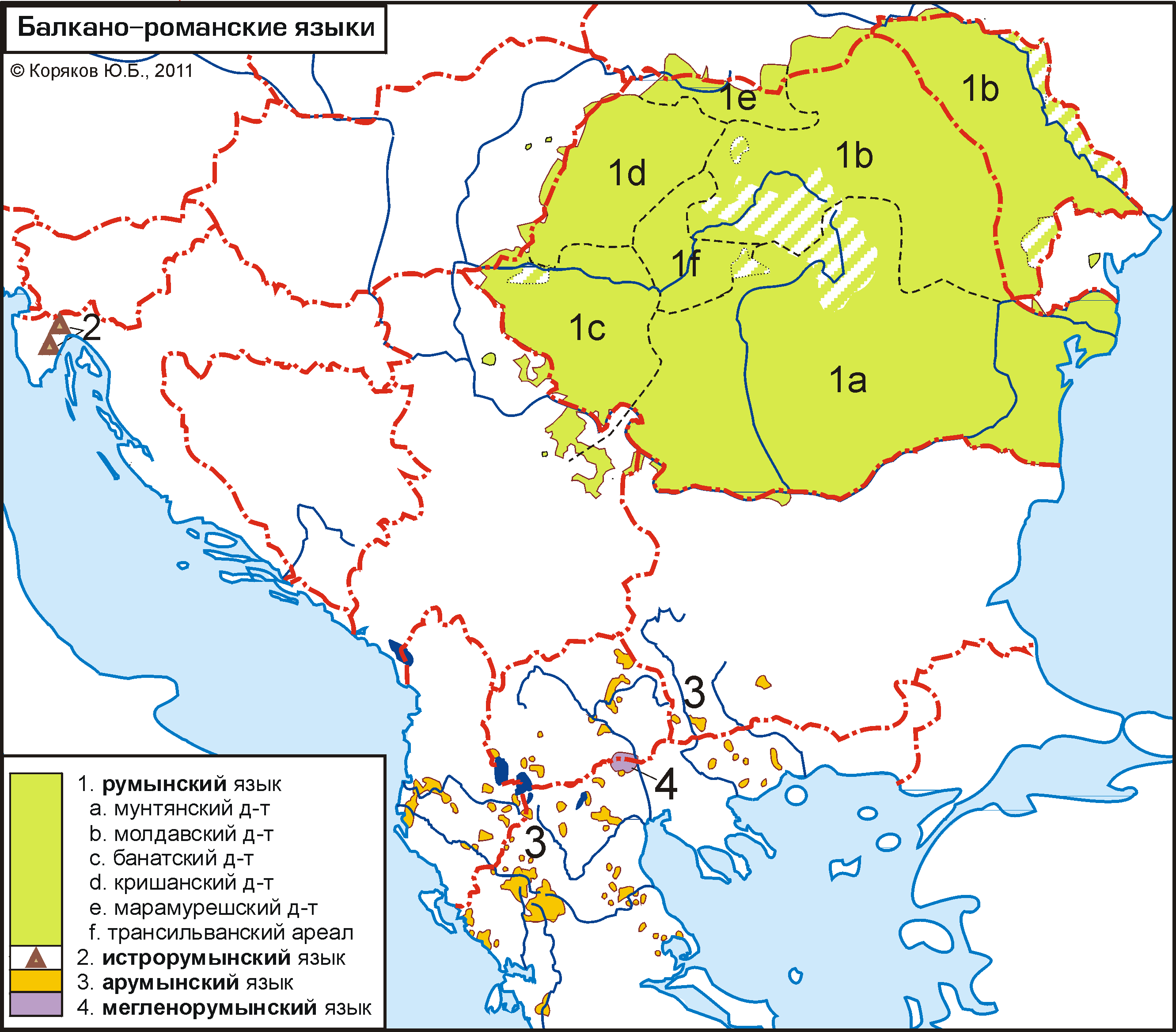 Map of Eastern Romance languages. Based on the charts in Yazyki mira: Romanskiye yazyki [Languages of the World: Romance languages], Institute of Linguistics, Russian Academy of Sciences, 2001.